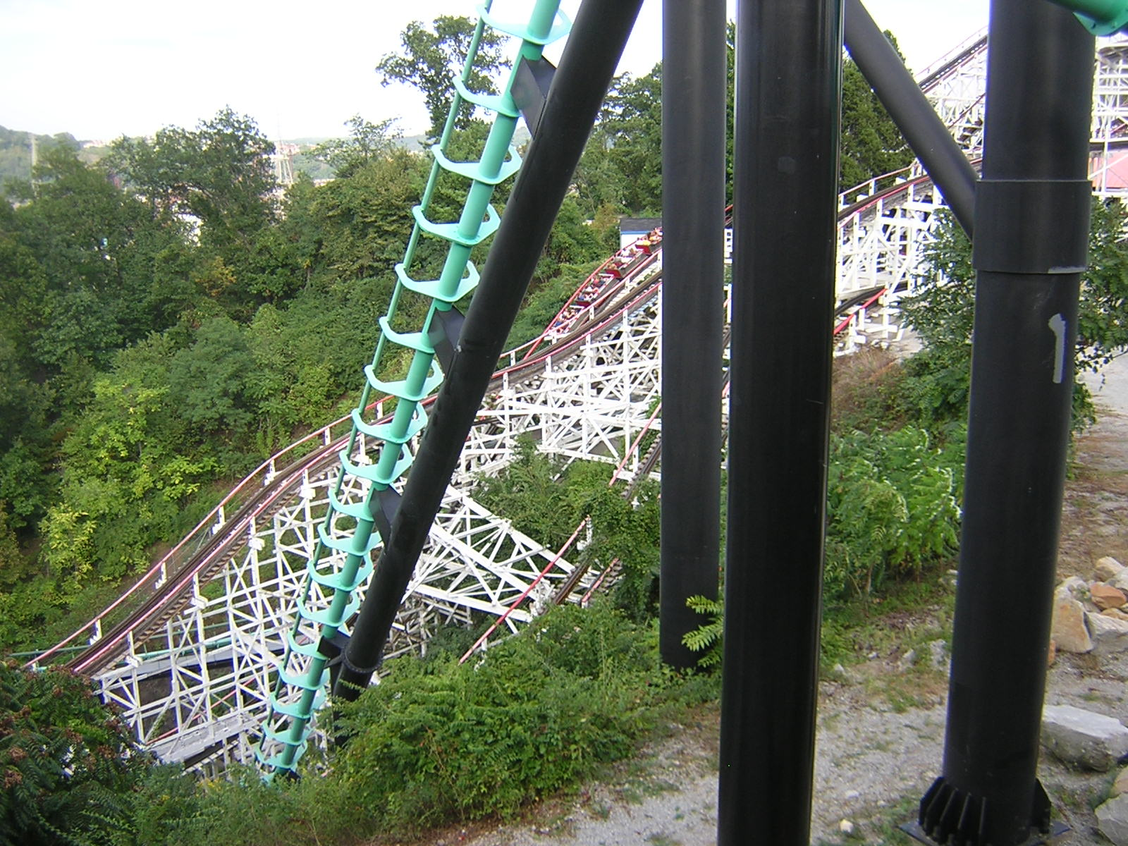 A scene from Kennywood, an amusement park located in West Mifflin, Pennsylvania on the Monongahela River. This is a view from the station of the Phantom's Revenge looking toward the Monongahela River. A steep midtrack drop of the Phantom' s Revenge is visible, going down the cliff into the ravine. The first major drop of the track of the Thunderbolt is visible, showing clearly how the terrain is used, and how the tracks intertwine. A train of the Thunderbolt is ascending, just about to engage the first lift hill.